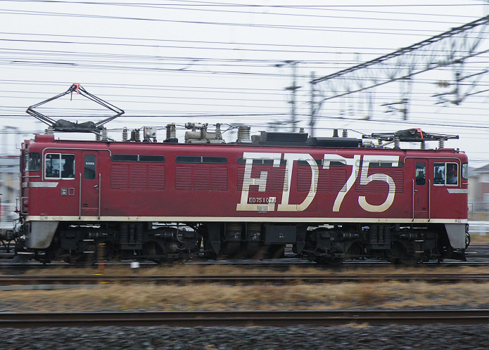 JR East Class ED75-1000 electric locomotive ED75 1028 in "Express Rainbow" livery passing through Iwanuma Station in Miyagi, Japan